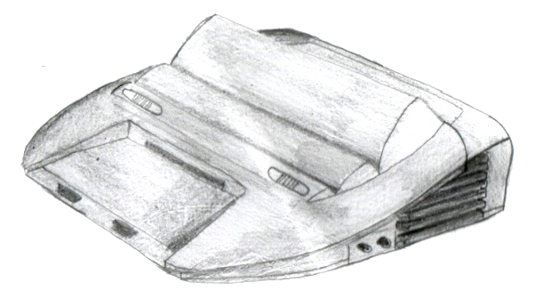 Atari Panther chassis concept according to scanned plans on , self drawn